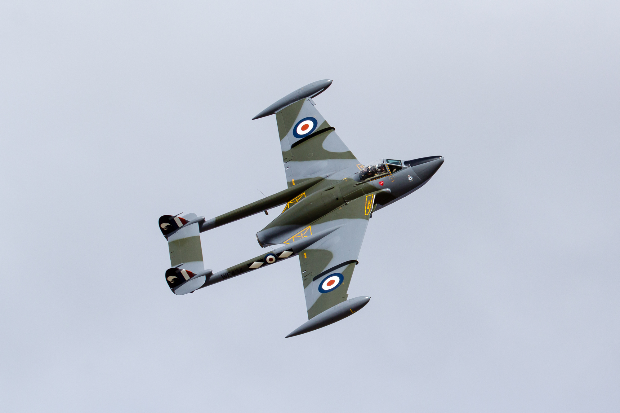 Classic Fighters 2015 - De Havilland Venom ZK-VNM, ex. Swiss Air Force J-1799